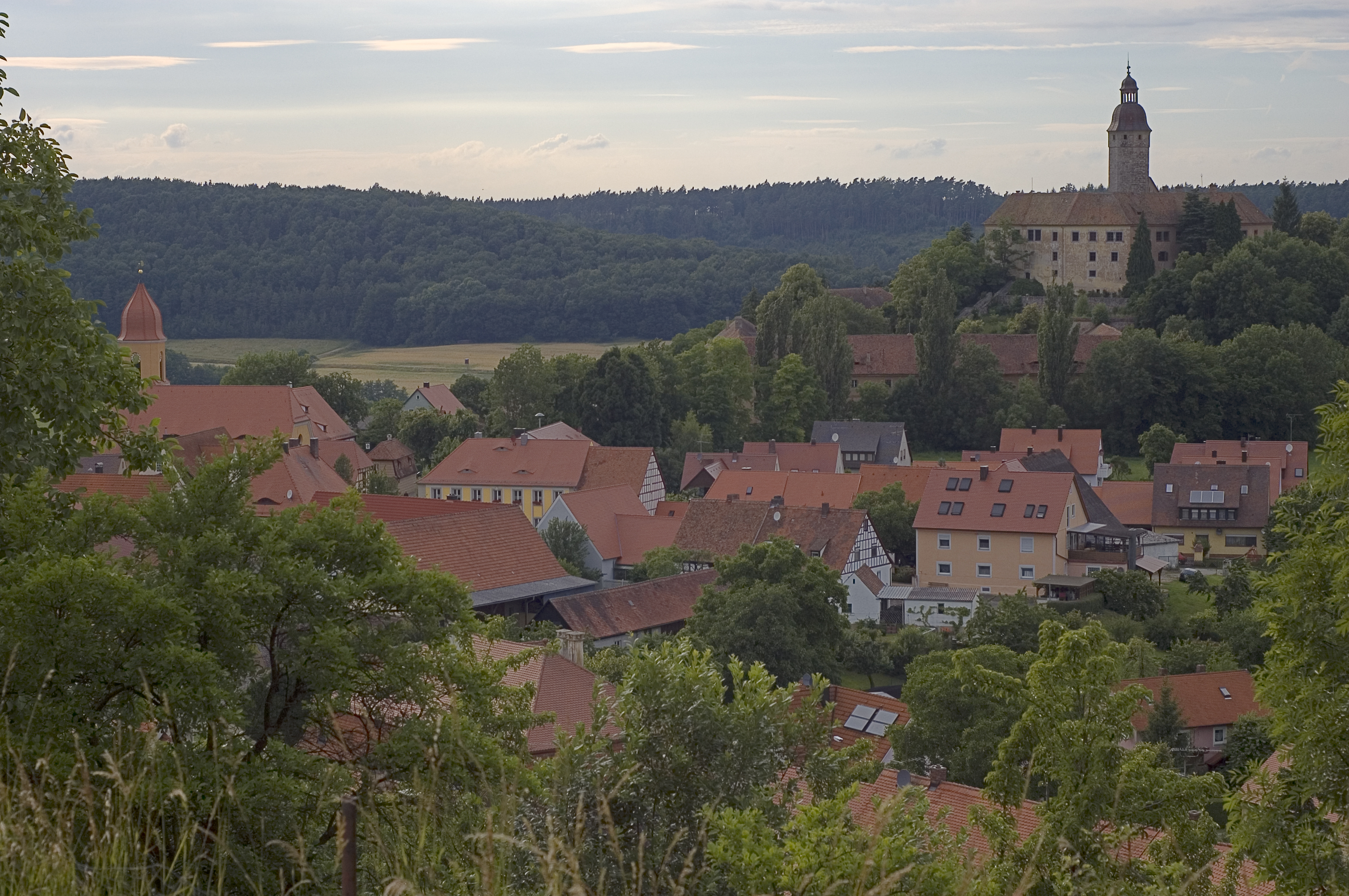 Virnsberg and Virnsberg castle, Flachslanden, Germany Camera: Nikon D50 Lens: AF-S DX Zoom-Nikkor 18-55 mm 1:3,5-5,6G ED